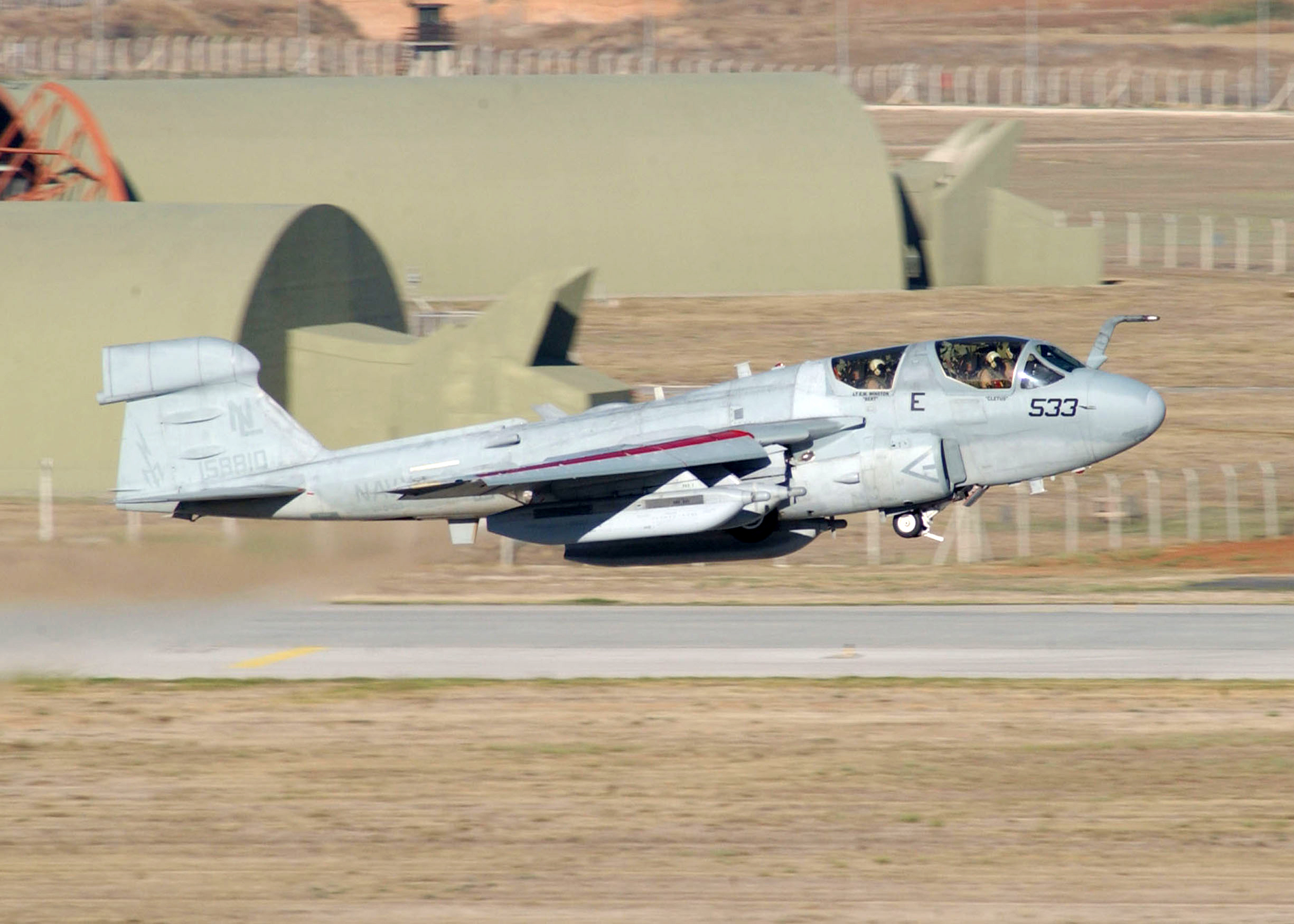 Incirlik Air Base, Turkey (Nov. 17, 2002) -- An EA-6B “Prowler” assigned to the “Wizards” of Tactical Electronic Warfare Squadron One Thirty Three (VAQ-133), takes off from Incirlik Air Base. The aircraft and her crew are assigned to a Combined Task Force conducting missions in support of Operation Northern Watch, which has been enforcing the no-fly zone over Northern Iraq since 1997. Note that the aircraft wears the tail code "NL", assigned to the Commander VAQ-Wings, Pacific at NAS Whidbey Island. From 1956 to 1995 this was the tail code of Carrier Air Wing 15 (CVW-15).